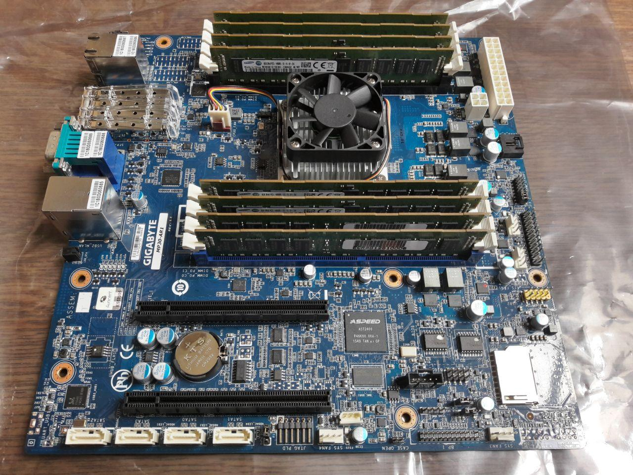 Applied Micro X-Gene (64bits ARM) processor based Gigabyte MP30-AR1 motherboard.